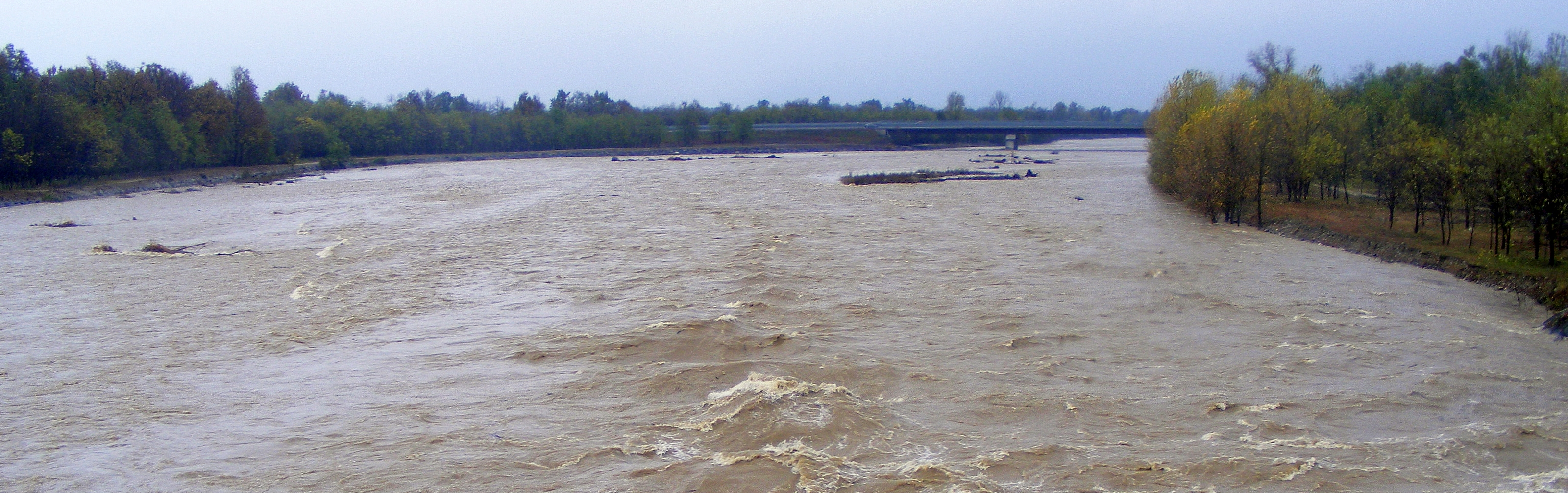 Orco between San San Benigno and Foglizzo, November 2011 (TO, Italy)